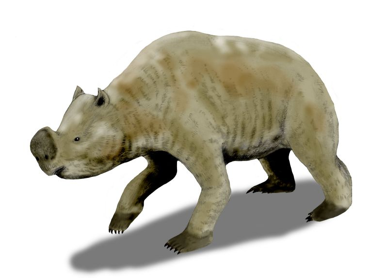 Zygomaturus trilobus, a diprotodontid marsupial from the Pleistocene of Australia, digital